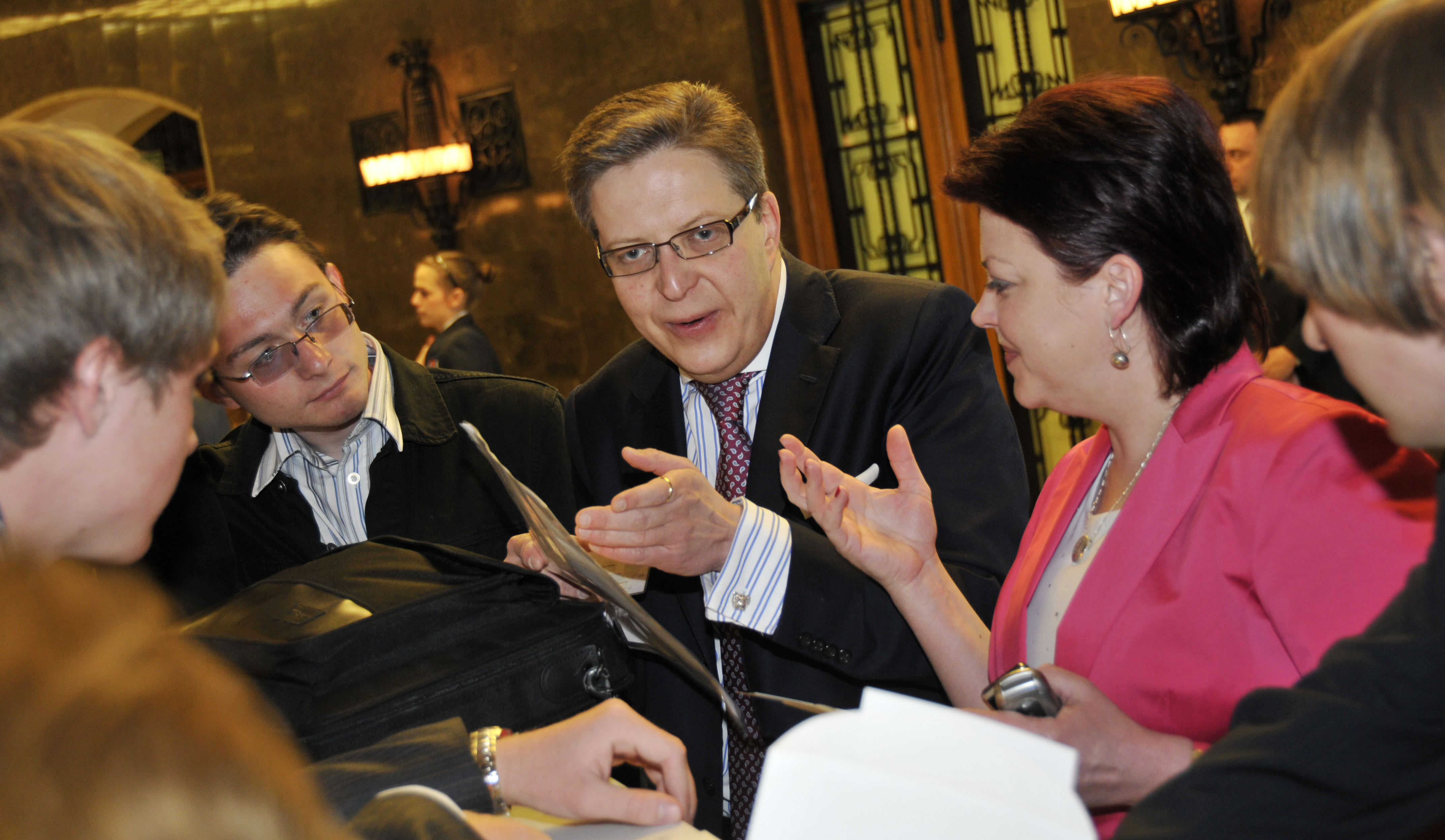 EPP Congress Warsaw